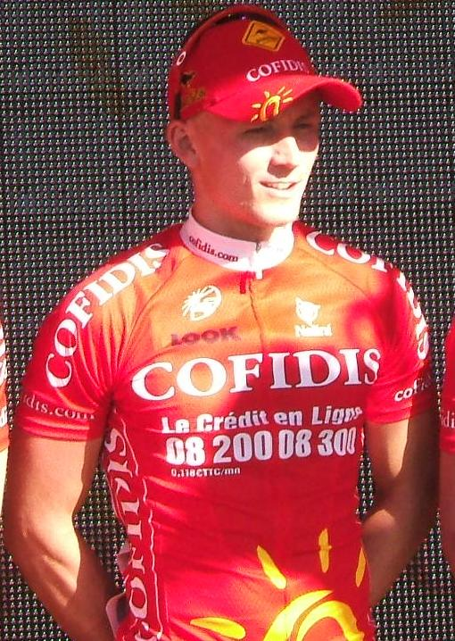 Named cyclist at the en:2009 Tour Down Under team presentation